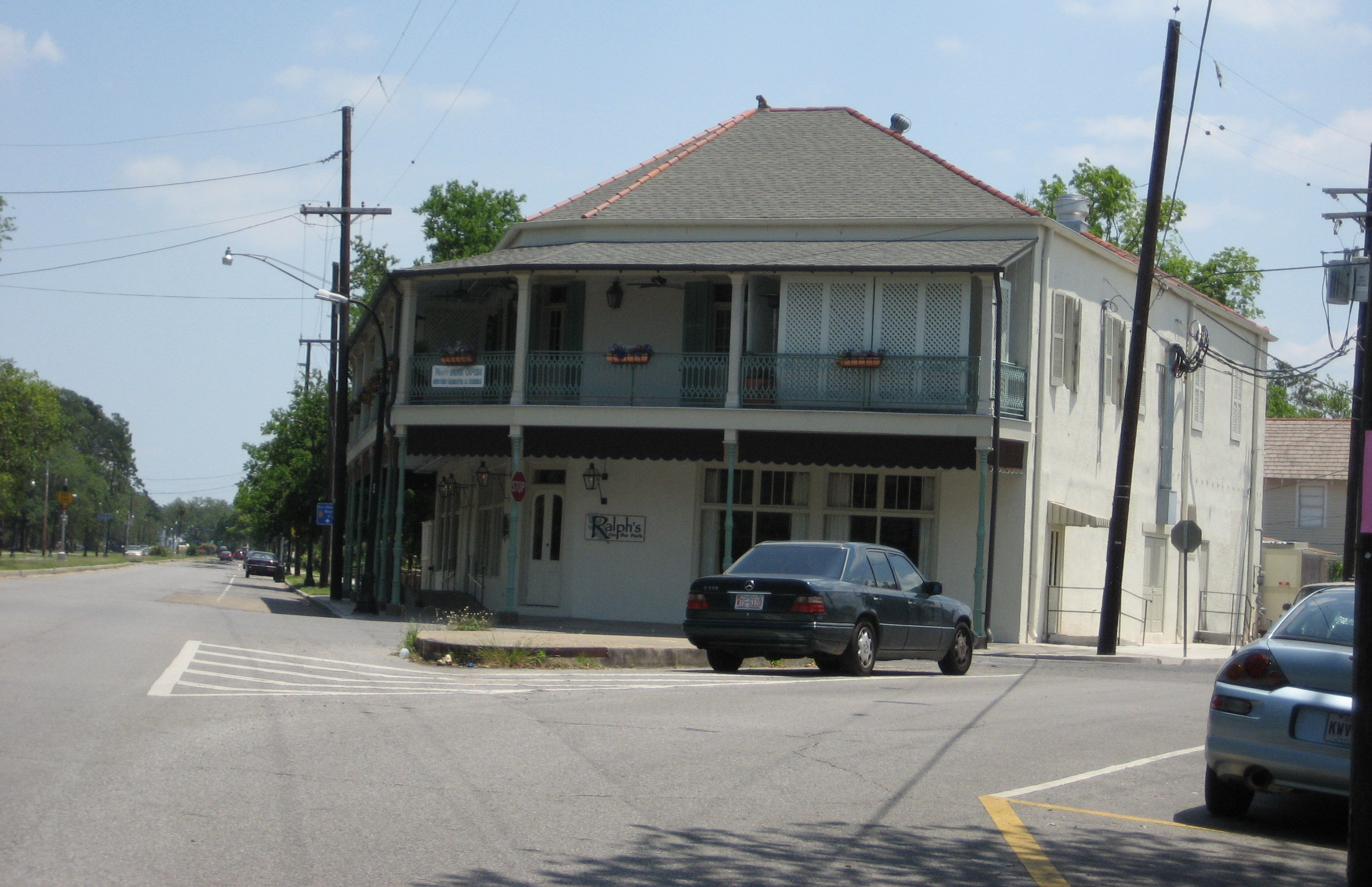 New Orleans: Ralph's On The Park Restaurant across from City Park. Old "Tavern on the Park" building.